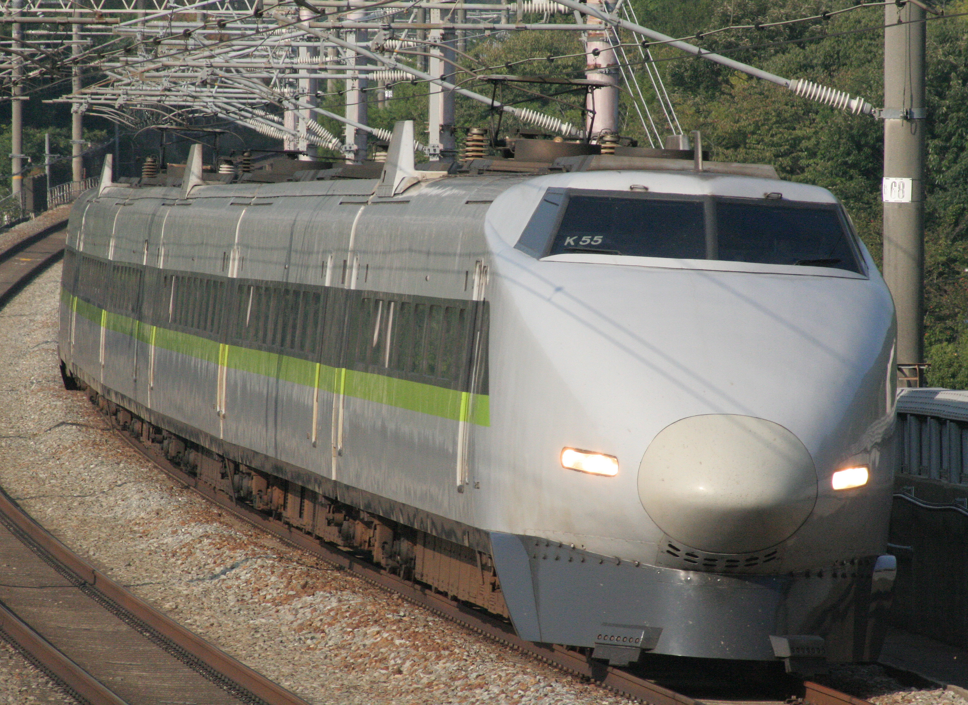 JR West 100 series shinkansen set K55 on the Sanyo Shinkansen Kodama 622 service between Okayama and Aioi